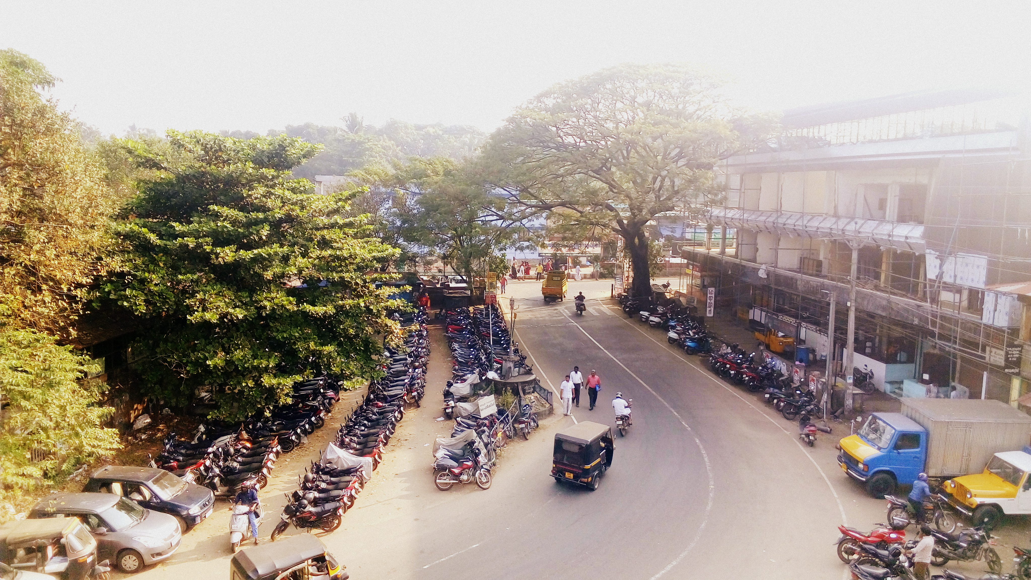 Tirur is one of the largest town in Malappuram district, Kerala